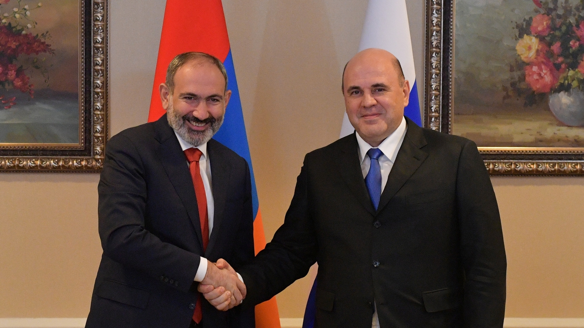 Mikhail Mishustin’s meeting with Prime Minister of Armenia Nikol Pashinyan